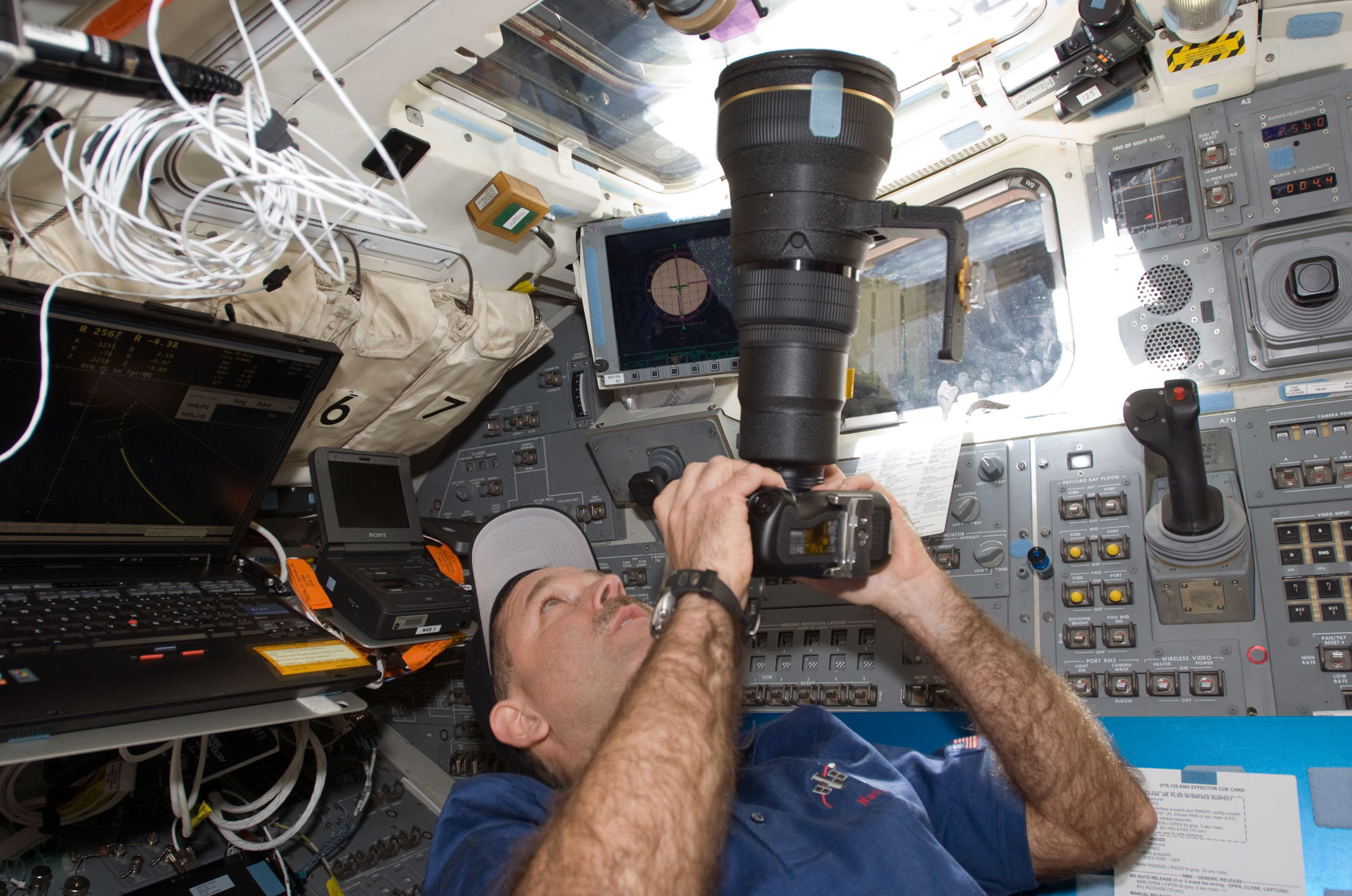 Astronaut John Grunsfeld, STS-125 mission specialist, uses a still camera at an overhead window on the aft flight deck of Space Shuttle Atlantis during flight day three activities.